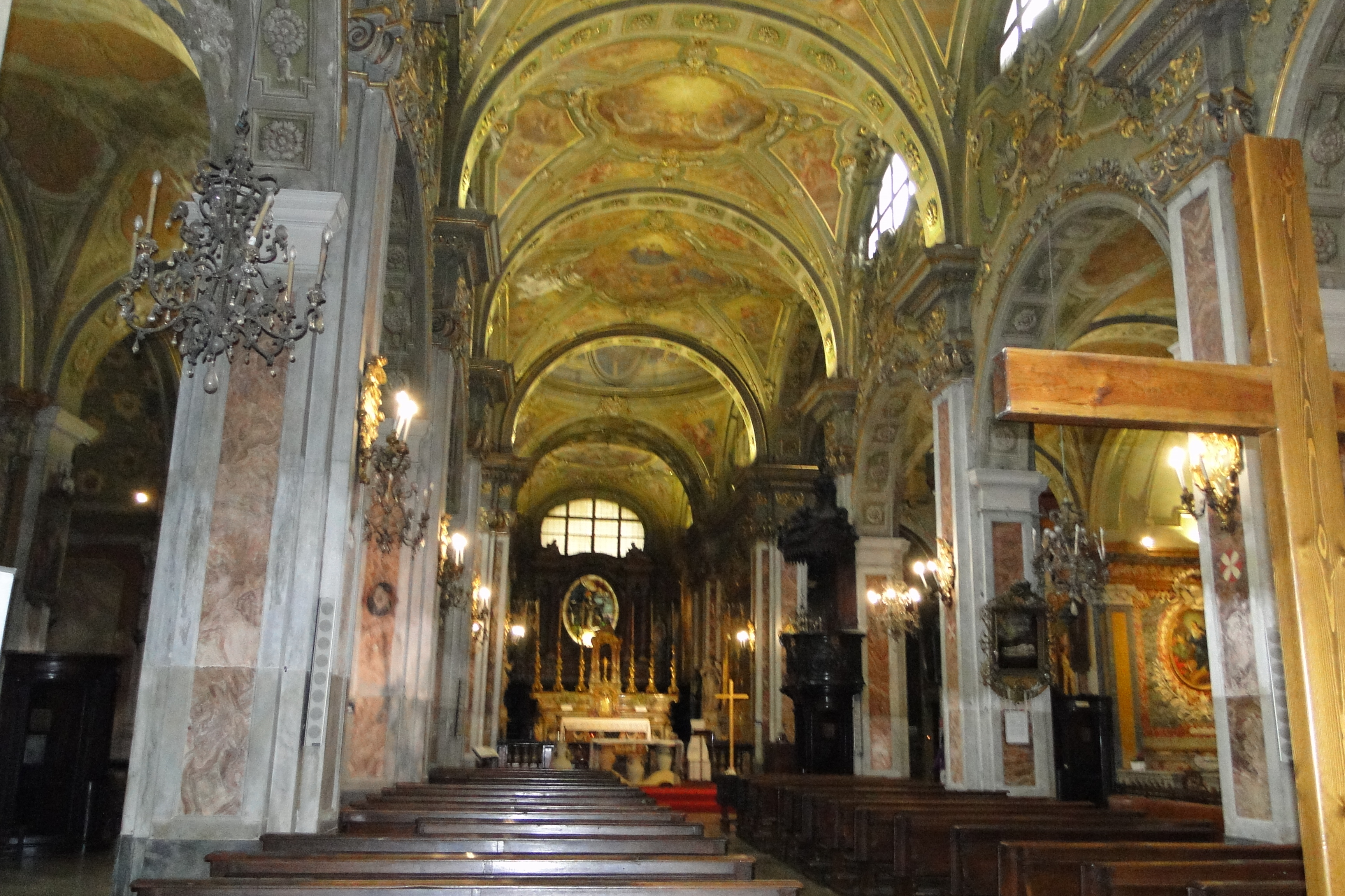 Church of St.Francis of Assisi in Turin (Italy) - Nave